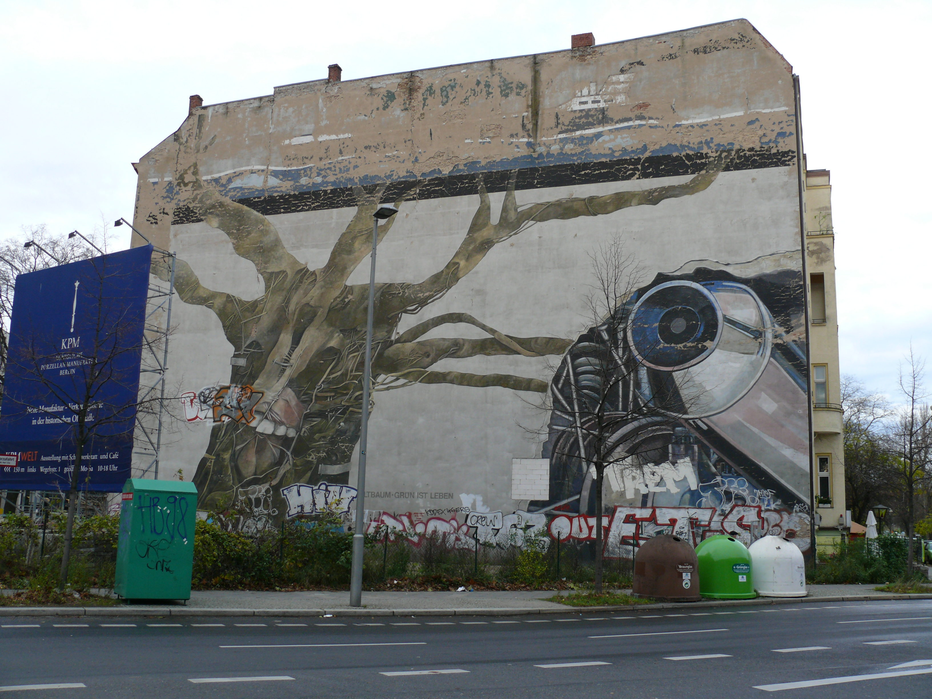 Bachstraße, Berlin-Hansaviertel, Germany